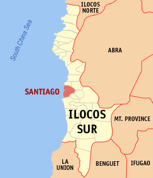 Map of Ilocos Sur showing the location of Santiago